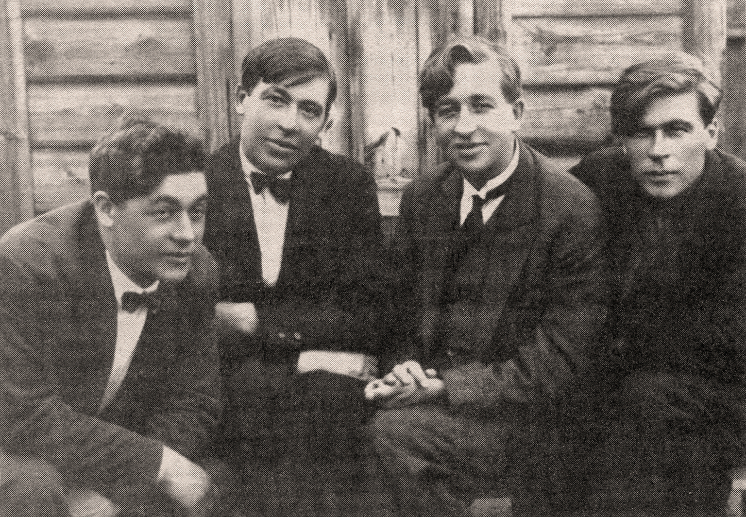 Pirogovy Aleksandr, Mikhail, Grigoriy i Aleksey